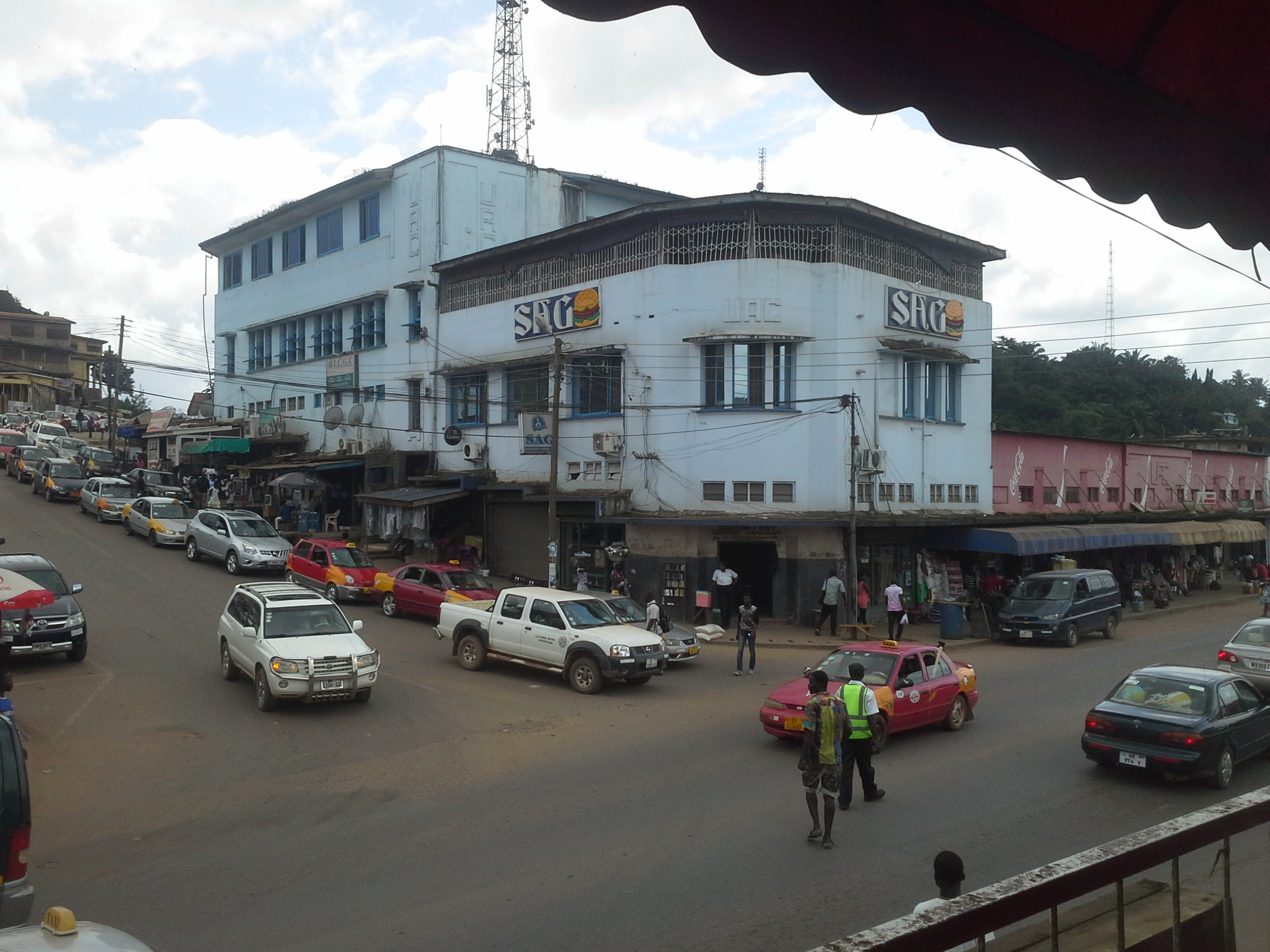 SAG Junction